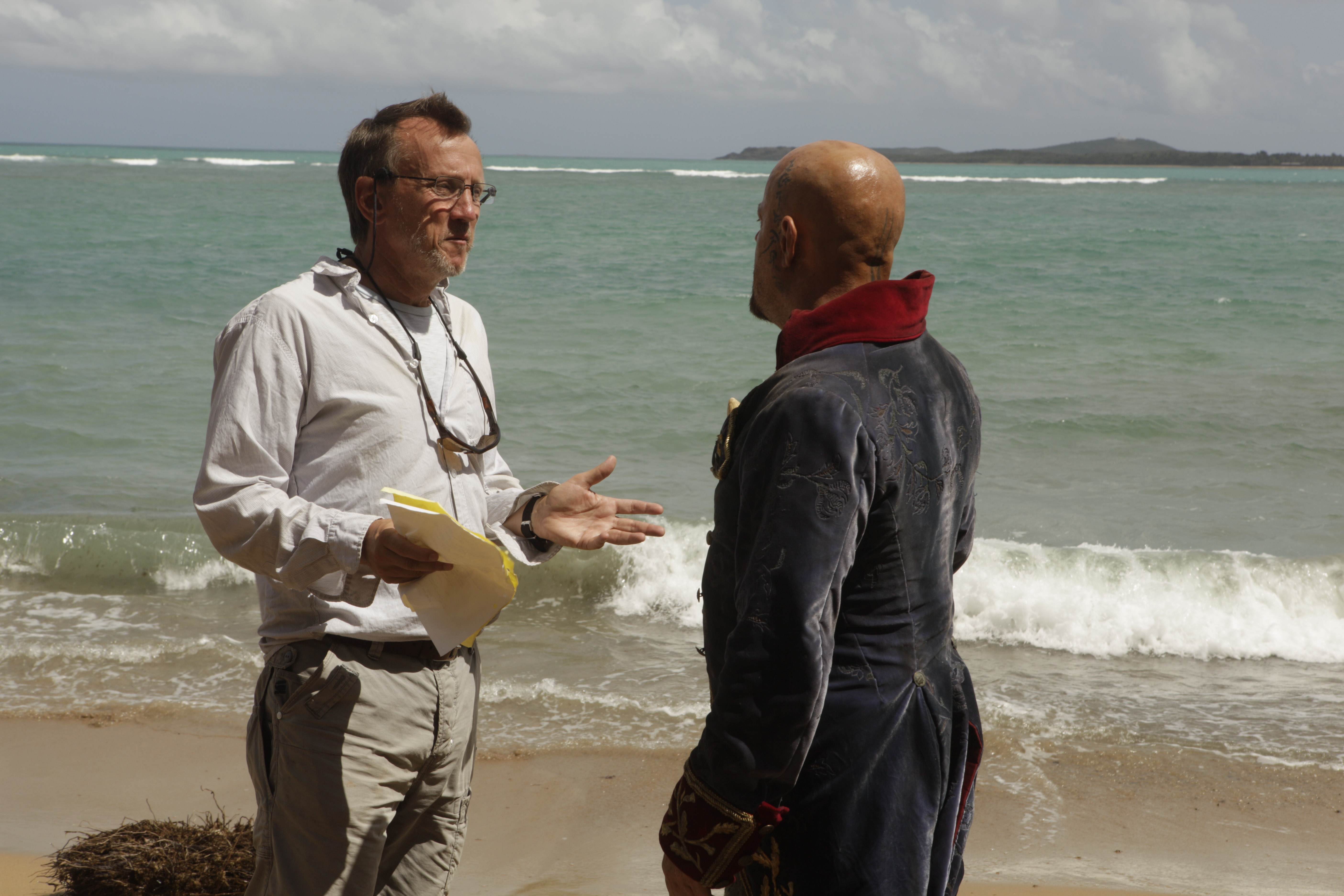 A picture of Steve Barron directing Eddie Izzard on the set of Treasure Island.